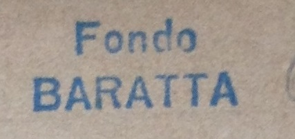 Fondo Mario Baratta stamp